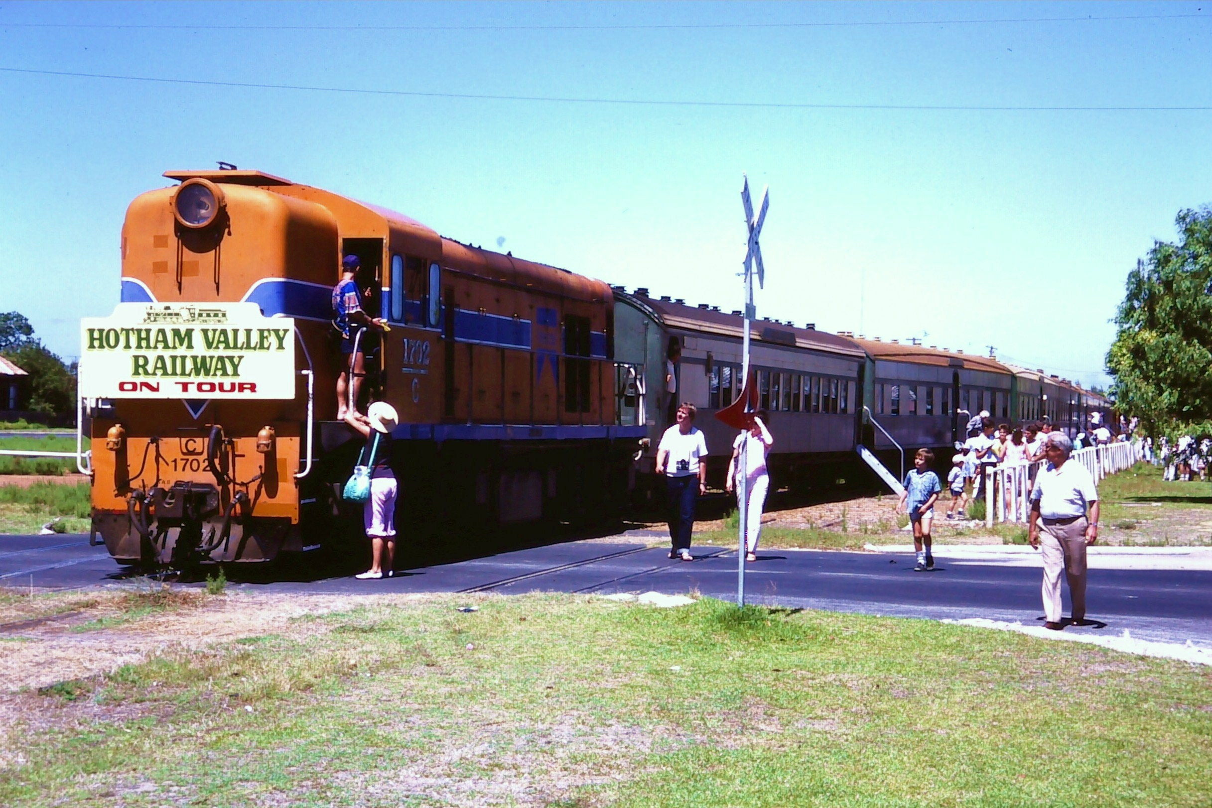 Western Australian Government Railways (WAGR) C class locomotive no C1702, in Westrail orange and blue livery, shortly after its arrival at Busselton, Western Australia with a Hotham Valley Railway Busselton Beachcomber excursion train from Perth.Kodachrome slide converted by Kaiser Baas Photo Maker Pro into a digital image.